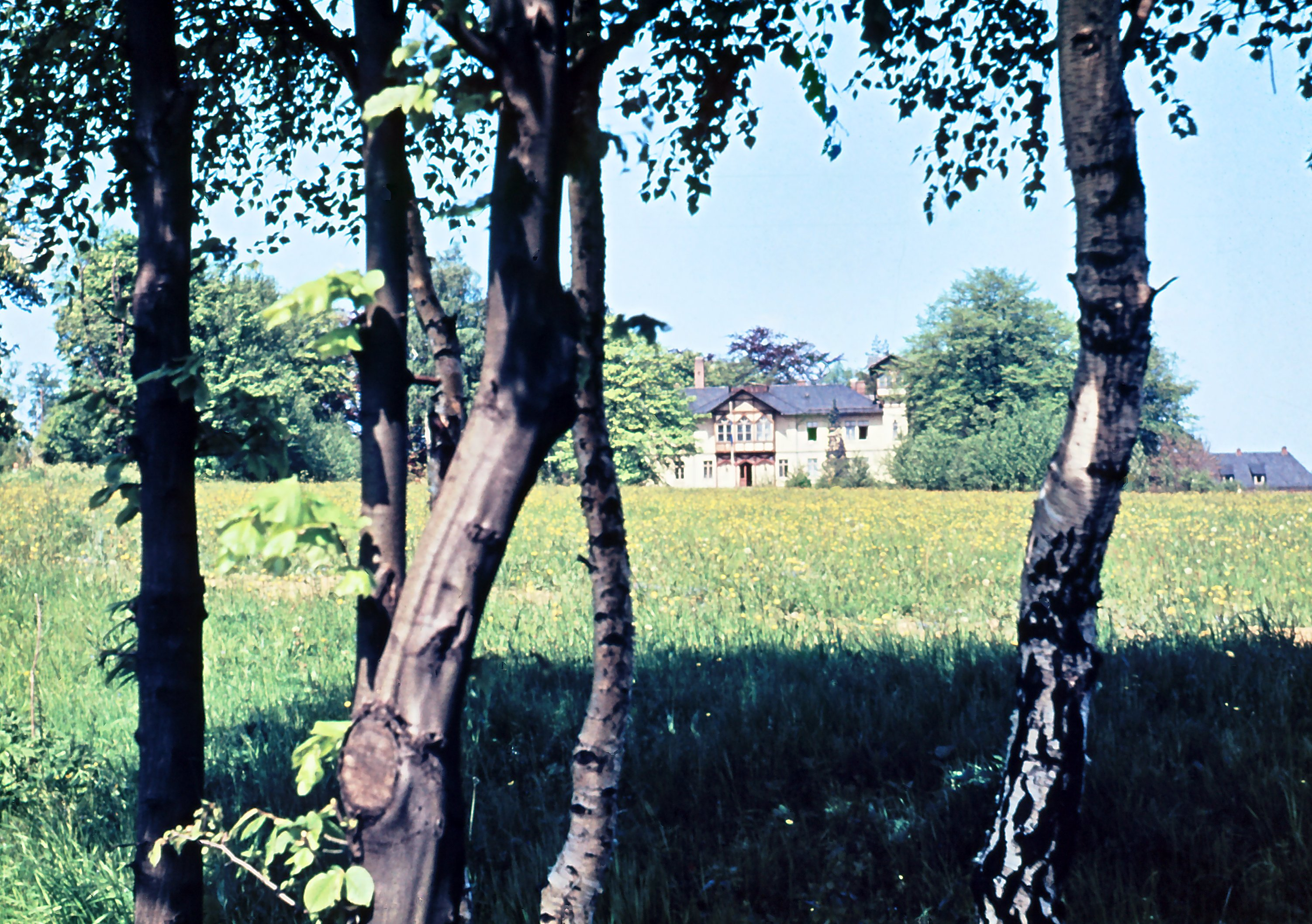 Hunting lodge in Waldhaus near Greiz